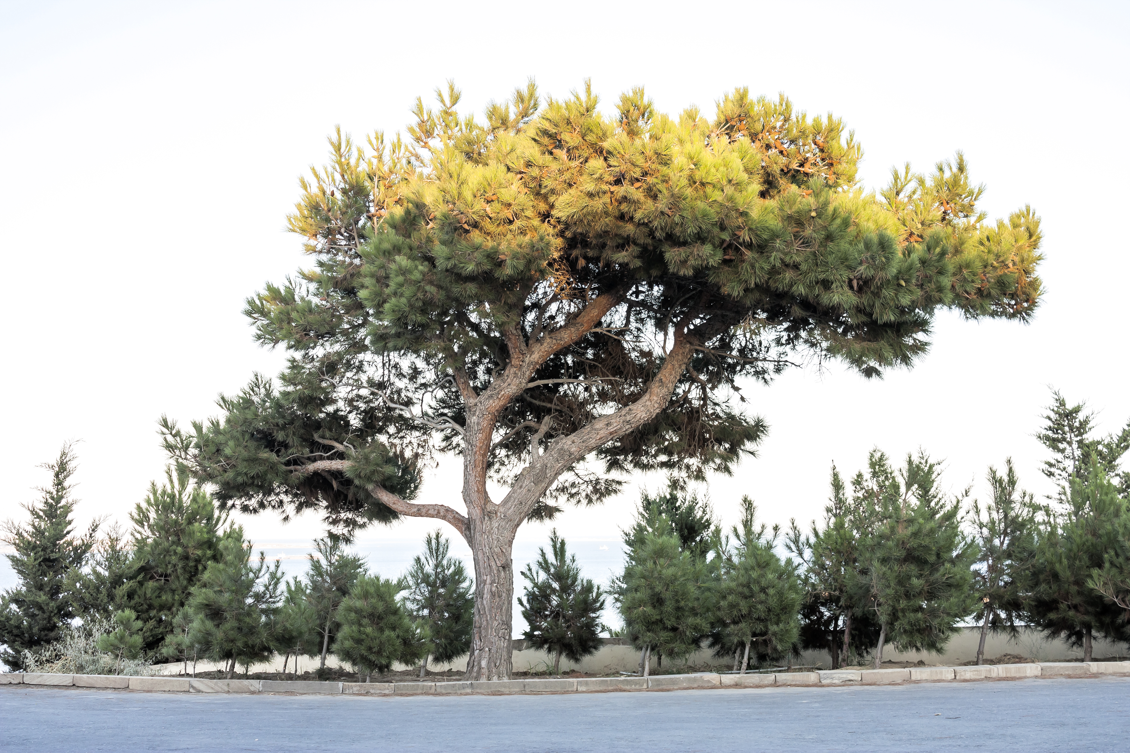 Eldar Pine Pinus brutia subsp. eldarica. Nagorny Park, Baku city, Azerbaijan